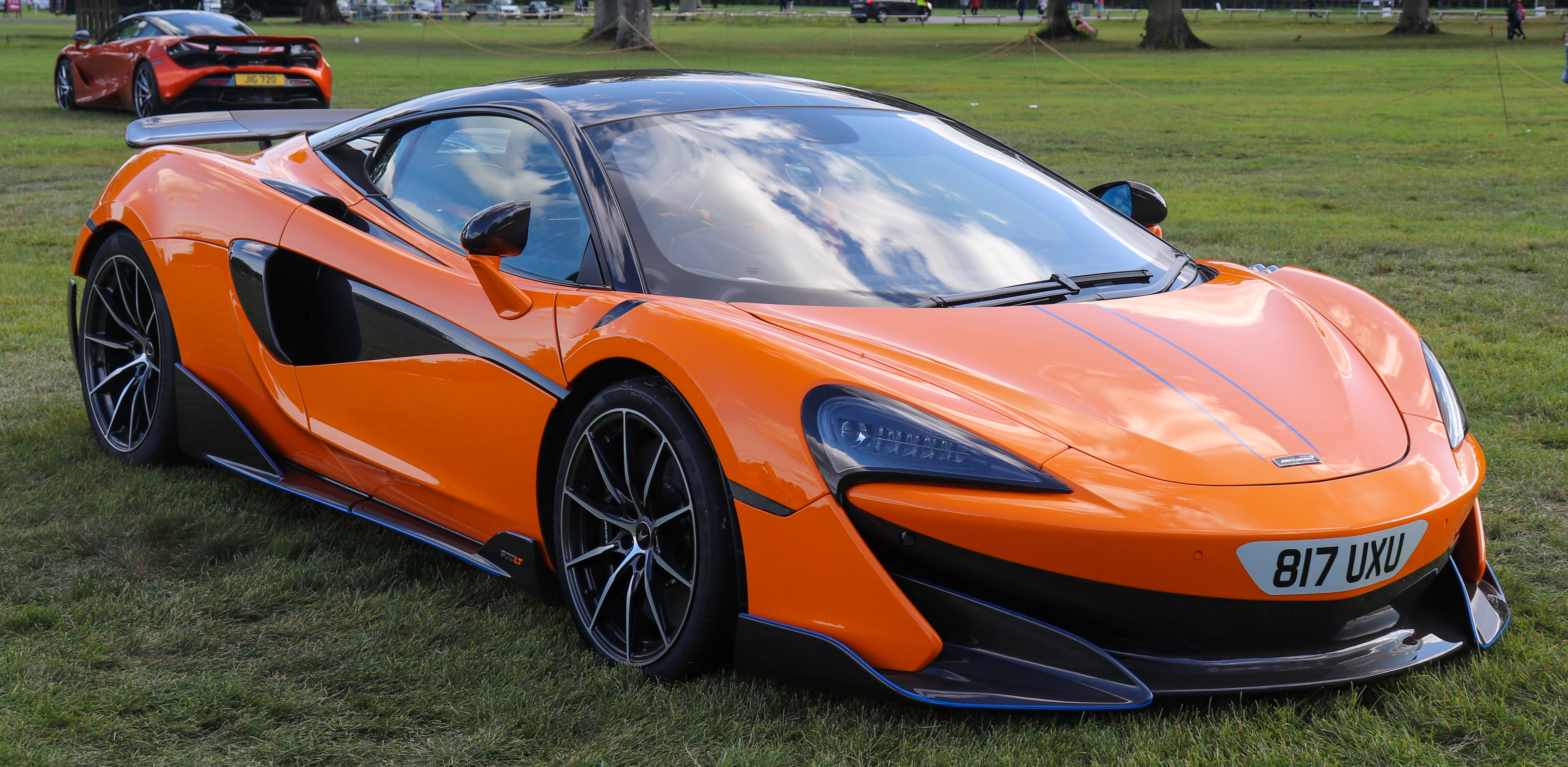 2019 McLaren 600LT V8 S-A 3.8 Front Taken at the Salon Privé Concours d'Elegance Classic Car Motor Show 2019, Blenheim Palace